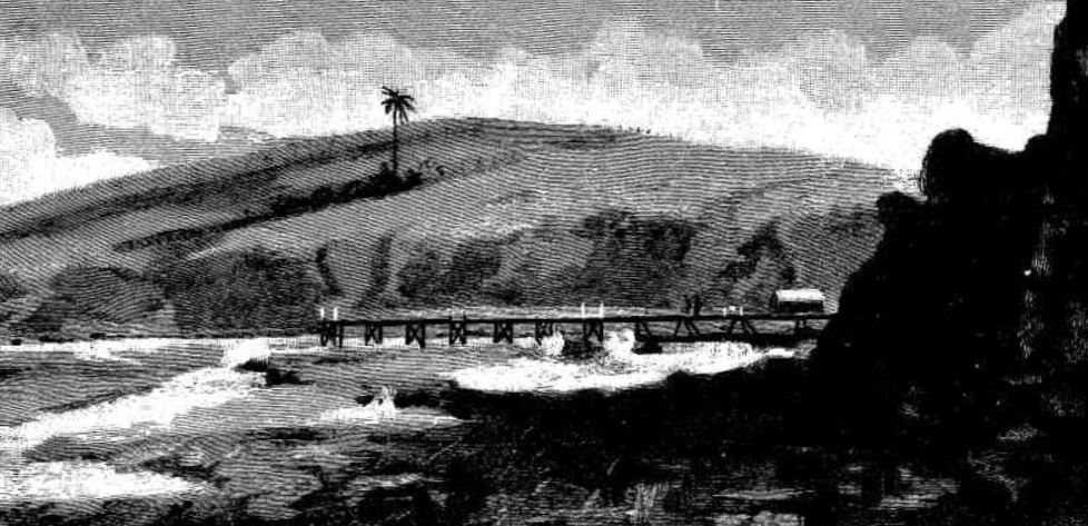 The former jetty at Boatharbour, Gerringong NSW Australia, c.1893.